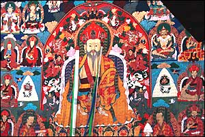 Depicted person: Shabdrung – title used when referring to or addressing great lamas in Tibet, particularly those who held a hereditary lineage